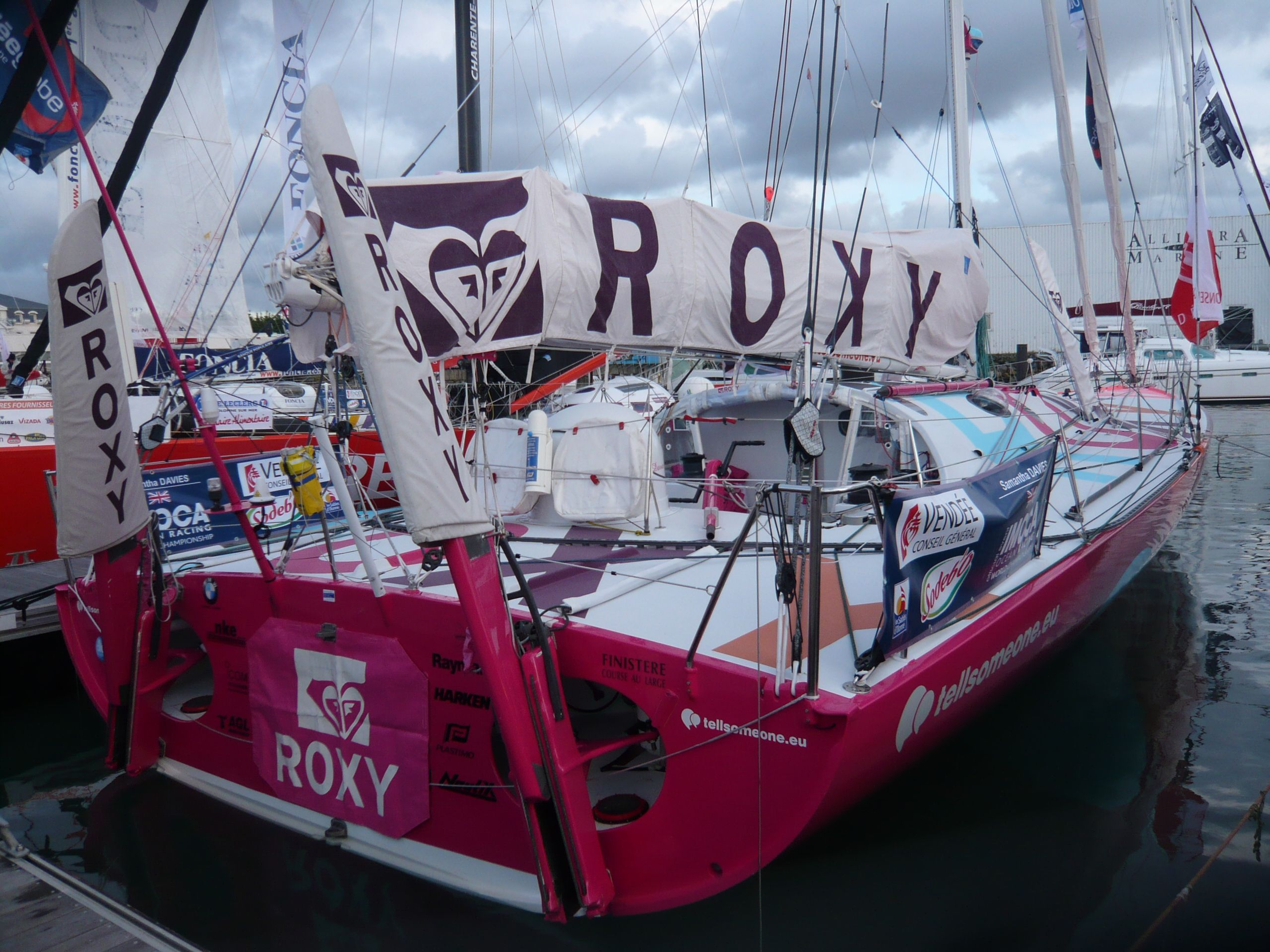 Roxy, 60' monohull